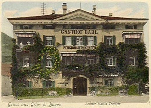 The Badlwirt Inn in Gries-Bozen at around 1900 (postcard)